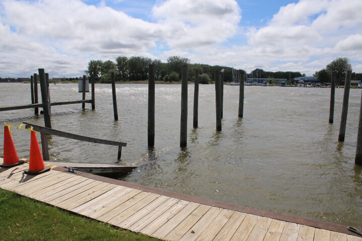 Seiche on Saginaw Bay, Lake Huron at the Saginaw Bay Yacht Club, May 30, 2015. Water level rose approx. 5 feet due to strong NNE wind. Credit: T. Griggs.